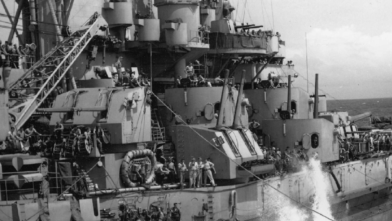 5 inch turrets aboard USS Massachusetts (BB-59). Taken during refueling from the T3-S2-A1 class Kaskaskia (AO-27) during a storm at sea, 17 October 1944.